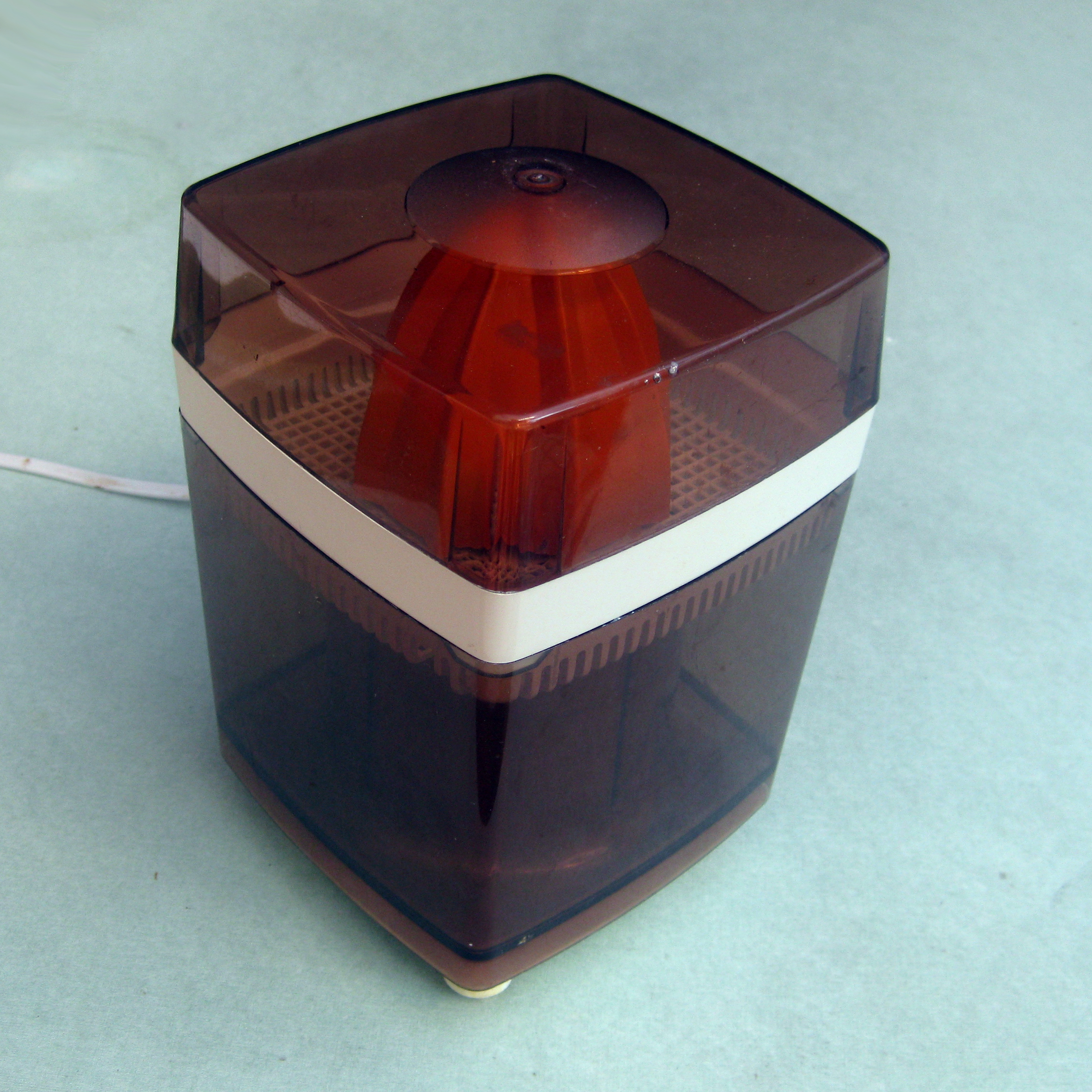 juice squeezer Moulinex type PA1A. Design: Jean-Louis Barrault